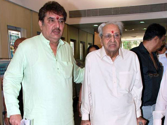 Raza Murad and Pran at the Dada Saheb Phalke Academy Awards, 2010